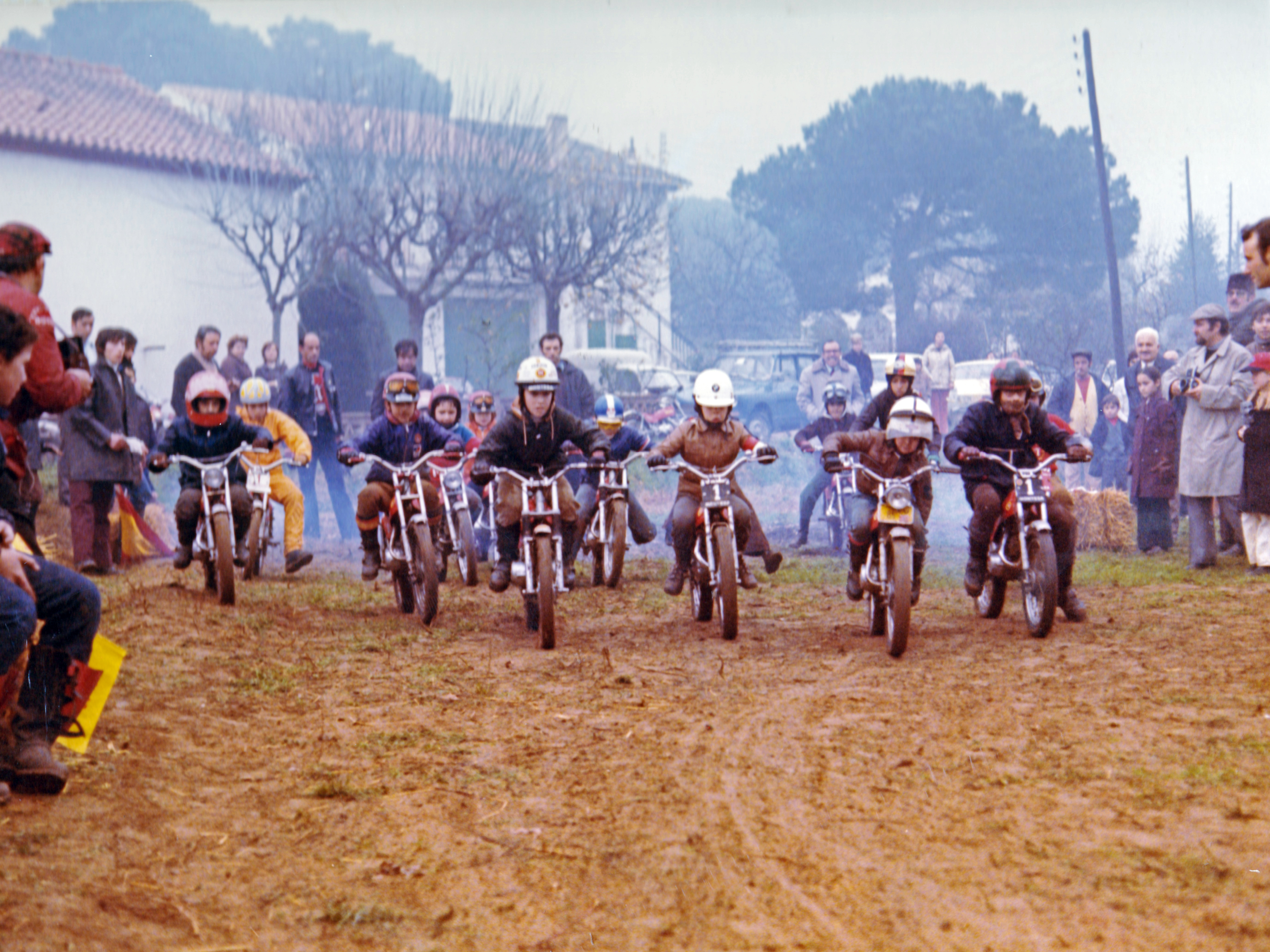 The first children's motocross race in the Iberian Peninsula in Can Cuberot, Montornès del Vallès, on 1972-12-3